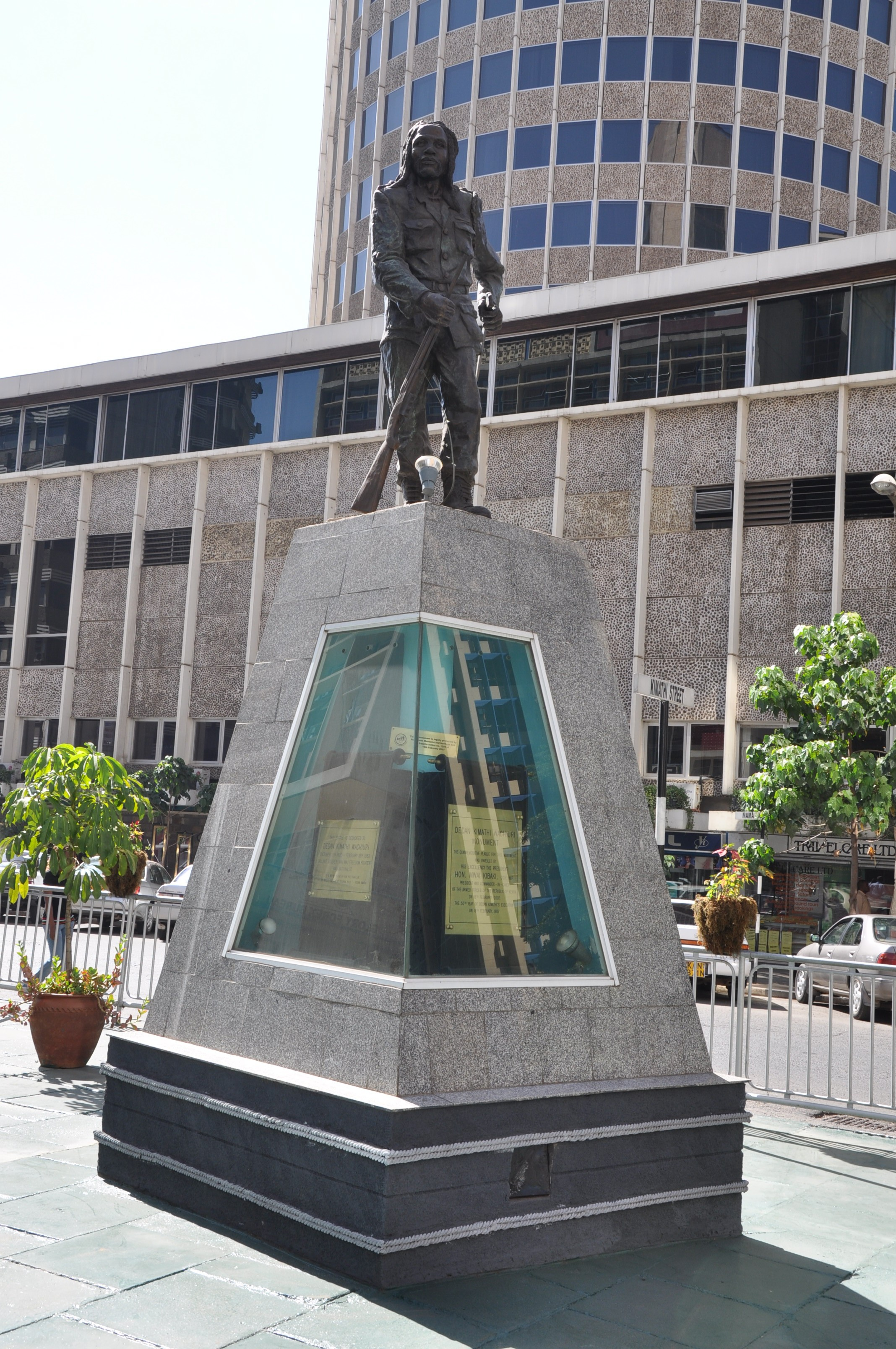 Dedan Kimathi Waciuri (31 October 1920 – 18 February 1957) was a Kenyan rebel leader who fought against British colonization in Kenya in the 1950s. He was convicted and executed by the British colonial government. The British colonial government that ruled Kenya at the time considered him a terrorist, as did "loyalist" Kenyans who supported the British occupation and seizure of Kikuyu lands and opposed the Mau Mau Uprising. According to some sources, under his leadership, the Mau Mau killed at least two thousand Kenyan civilians. The Mau Mau rebels killed only 32 European settlers, and fewer than 200 British soldiers in the eight year uprising. The British in turn killed 20,000 Mau Mau rebels in combat, hung over 1000 suspected Mau Mau supporters, and interned more than 70,000 Kikuyu civilians for years in brutal detention camps on suspicion of providing material support for the Uprising. In her Pulitzer Prize winning book, "Imperial Reckoning: The Untold Story of Britain's Gulag in Kenya", the Harvard historian Caroline Elkins argued that during the uprising the British detained over one million Kikuyu in what essentially were concentration camps, exposing them to untold suffering, torture and death. Non-loyalist Kenyans, particularly of the Kikuyu tribe, viewed Kimathi as a freedom fighter. His reputation as the leading fighter for Kenyan freedom remains today, and a bronze statue of "Freedom Fighter Dedan Kimathi" on a graphite plinth has been erected in central Nairobi